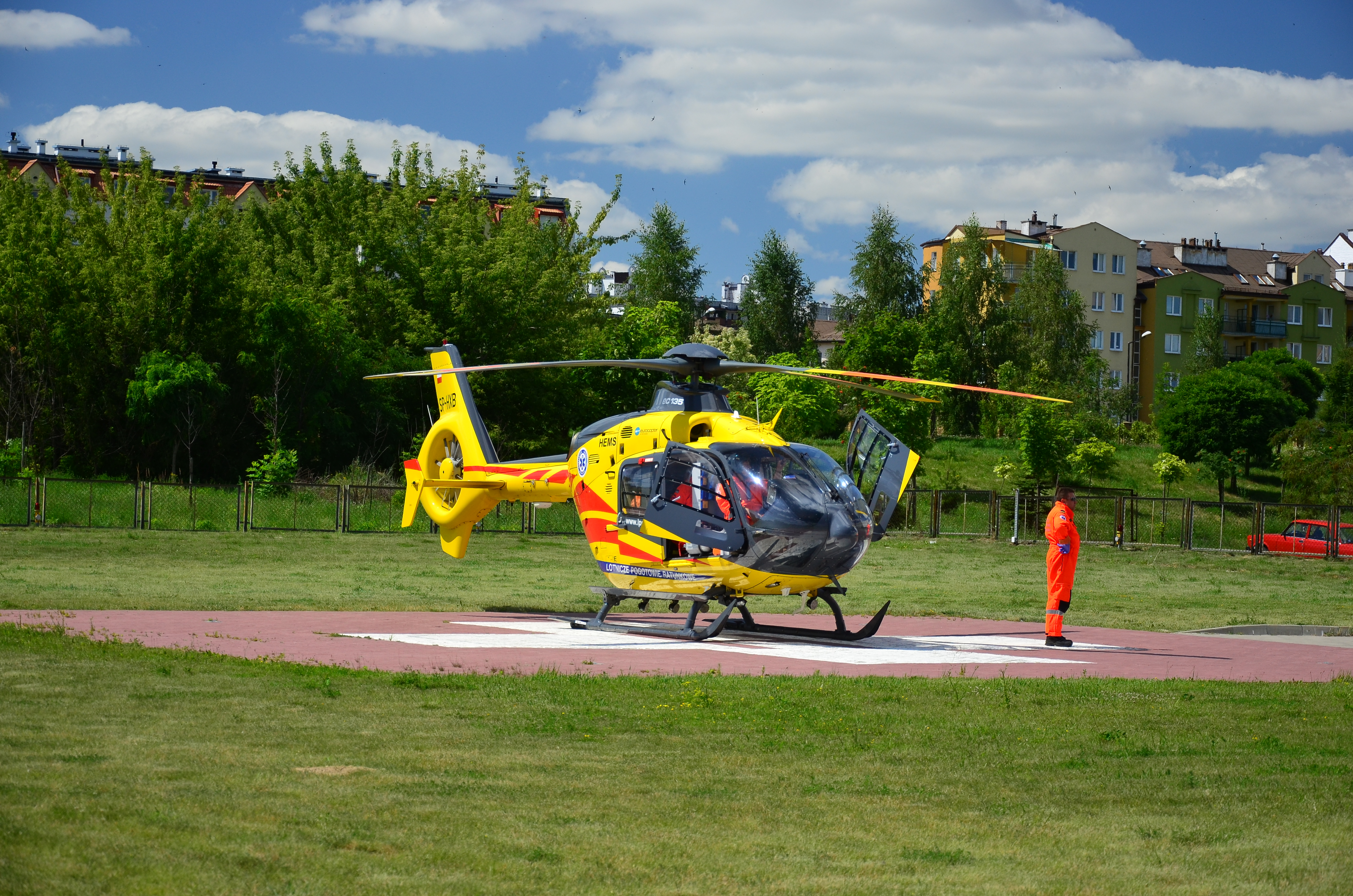 Eurocopter EC135P2+ Air Ambulance from Poland